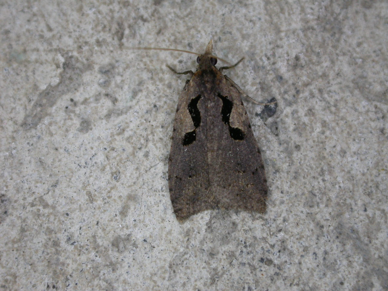 Cnephasia jactatana, Meadow Street, Papanui, New Zealand, 13 October 2004